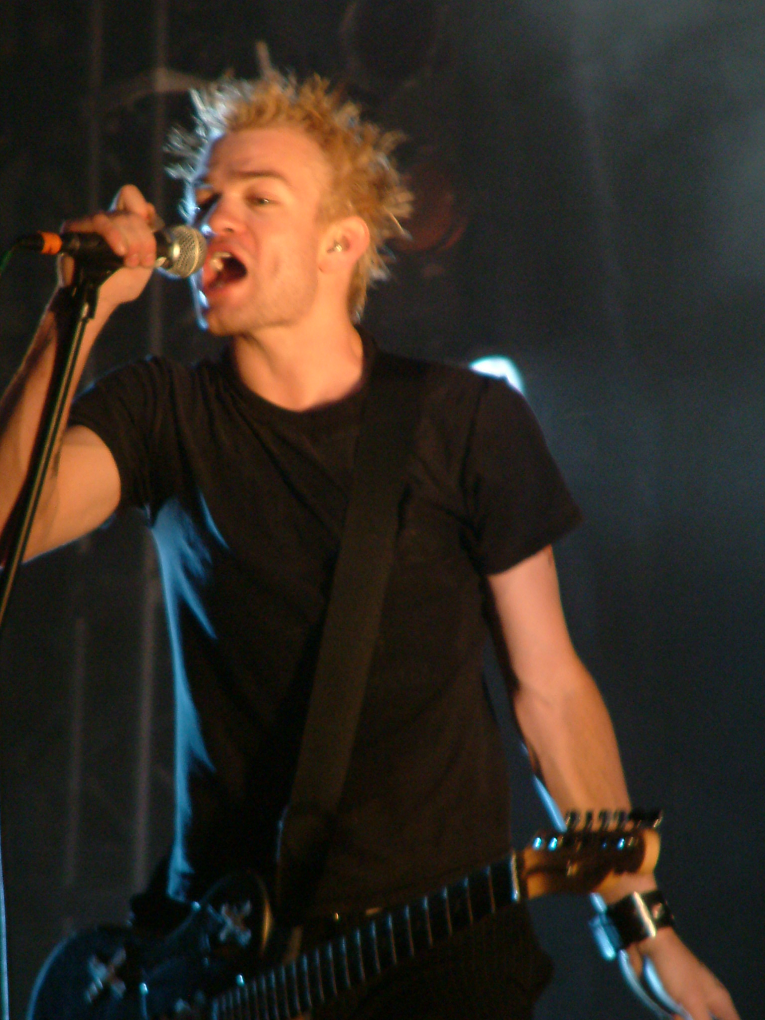 Sum 41 July 7'th 2003 Ottawa Bluesfest ottawa-bluesfest2003 "Sum 41"